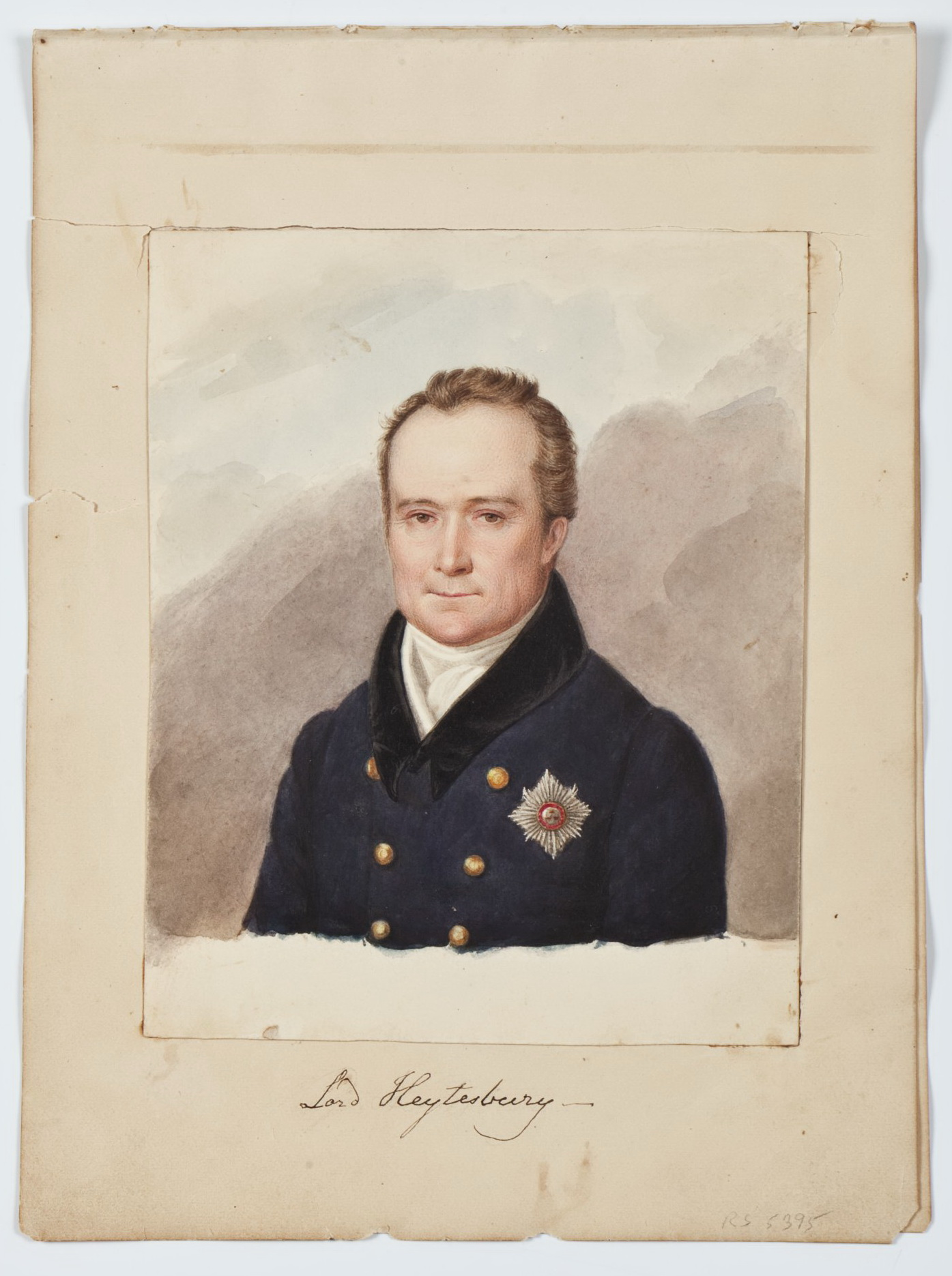 The Middleton Watercolor Album consists of a collection of 45 watercolor portraits bound in leather covers with neo-gothic embossing and a gilt bronze clasp in the same style. The album relates to the Middleton family of South Carolina, from which it descended until Hillwood purchased it in 2004. Williams Middleton—who was secretary to his father, Henry Middleton, the American minister to St. Petersburg from 1820 to 1830—assembled this album. The artist of many of the watercolors, most of which are unsigned, is likely Middleton's sister, Maria Henrietta, who studied painting during her years in St. Petersburg with her governess, Madame Mathes, who also painted miniatures. Two watercolors, including this portrait of the Countess Bobrinsky, are signed by the well-known Russian watercolorist Petr Sokolov. The portraits are of Russians and people in the foreign community who were close associates of the Middleton family. Their portraits provide an extraordinary commentary on the fashion and hairstyles of the 1820s.